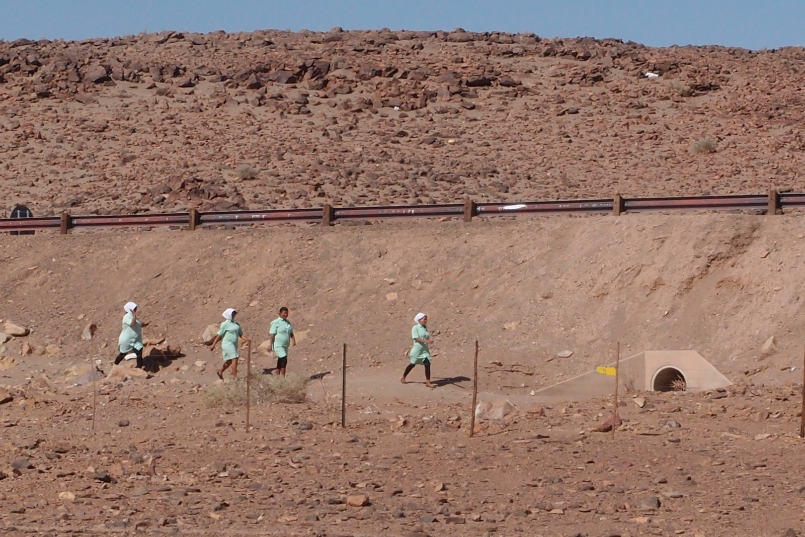 Four women are walking to their work at a lodge through the Namibian desert. This is an image of "African people at work" from Namibia